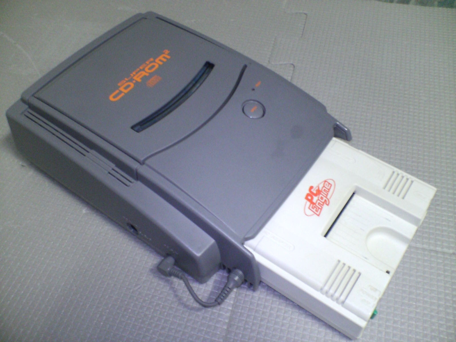 PC Engine First Model (attached Super CD-ROM2)